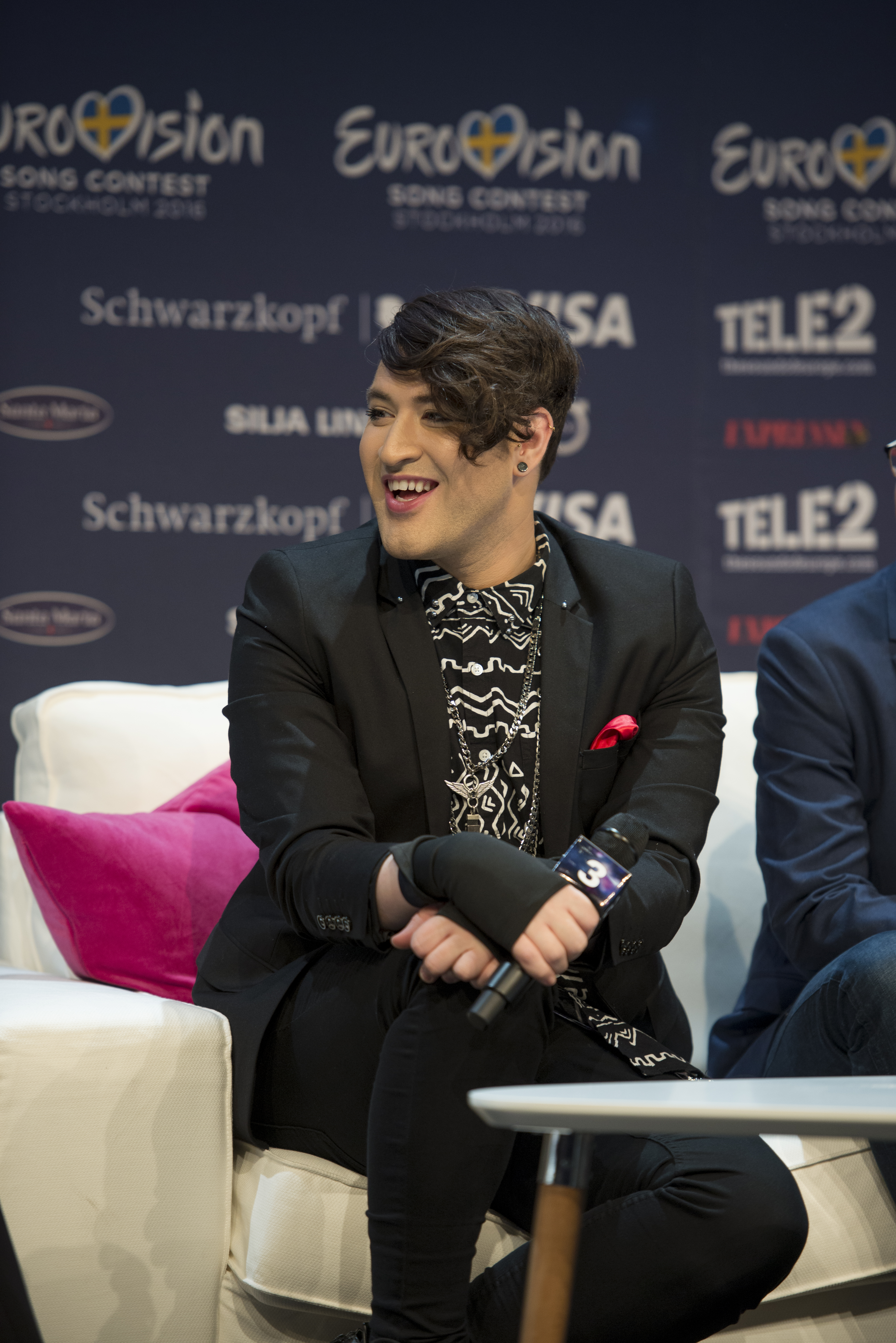 Hovi Star at a Meet & Greet during the Eurovision Song Contest 2016 in Stockholm. (Help translate this text)